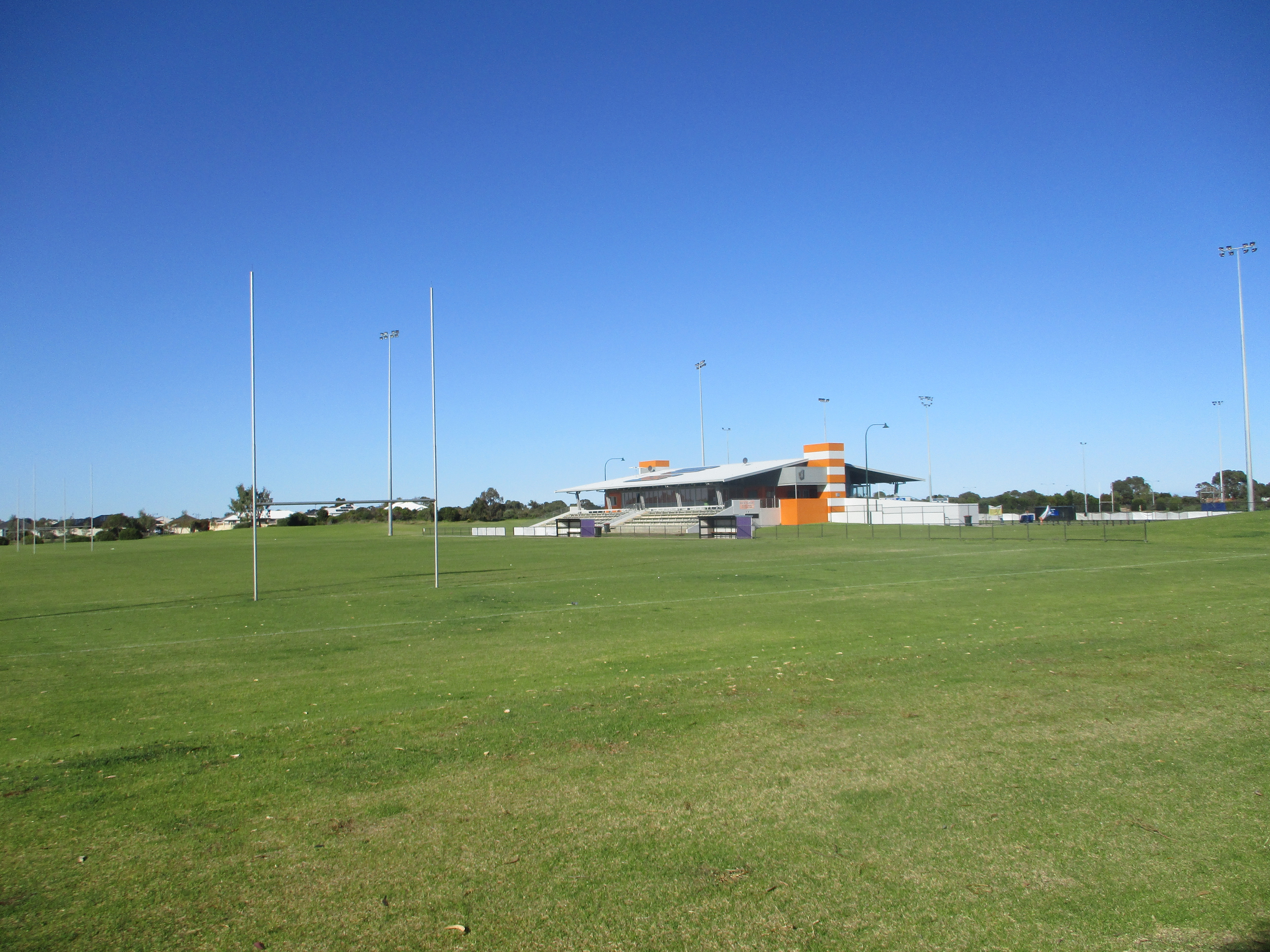 The Lark Hill Sports Complex, Port Kennedy, Western Australia. The Rugby League & Union club house.